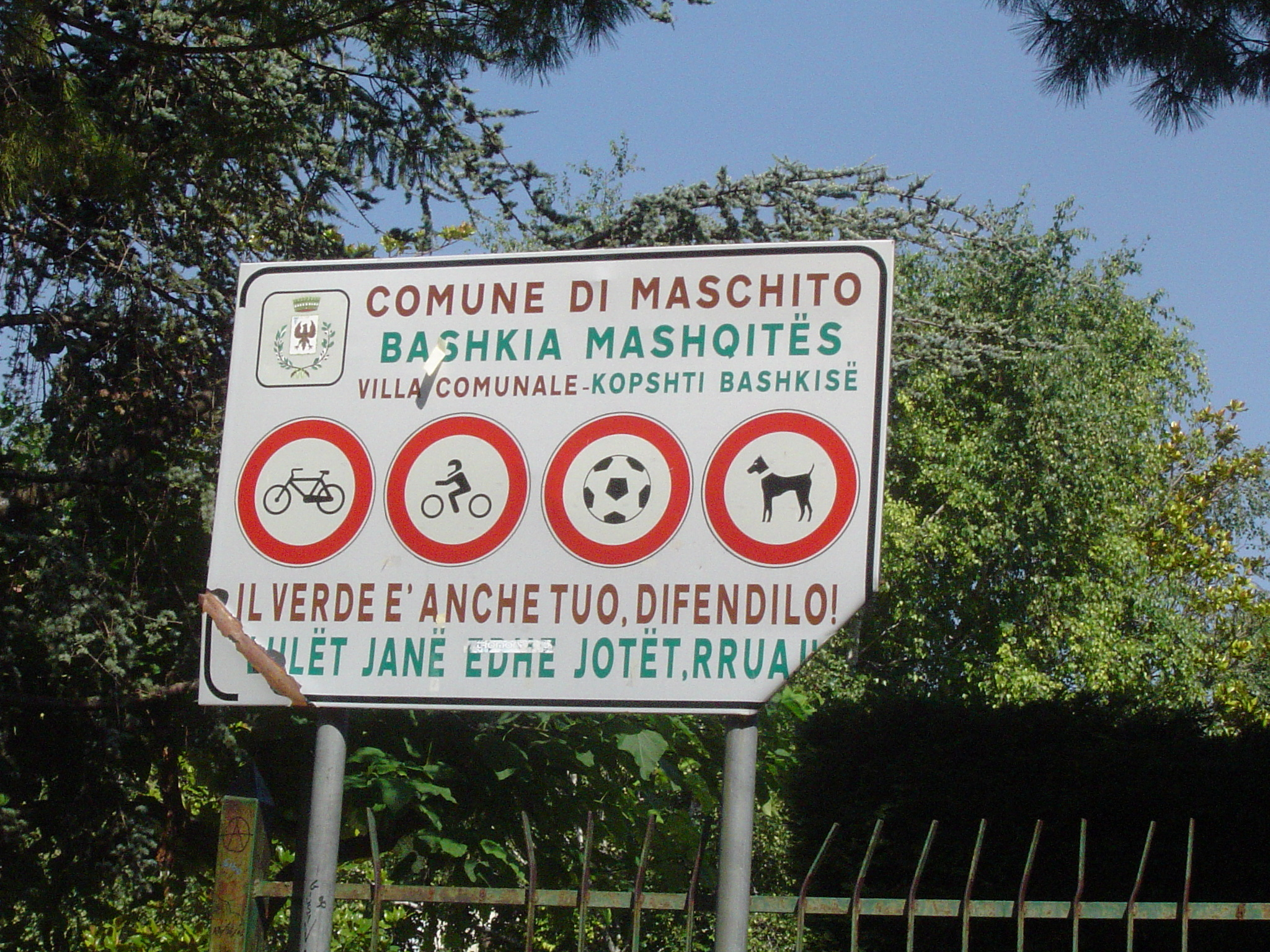 Bilingual panel (italian - albanian) in Maschito city, Italy